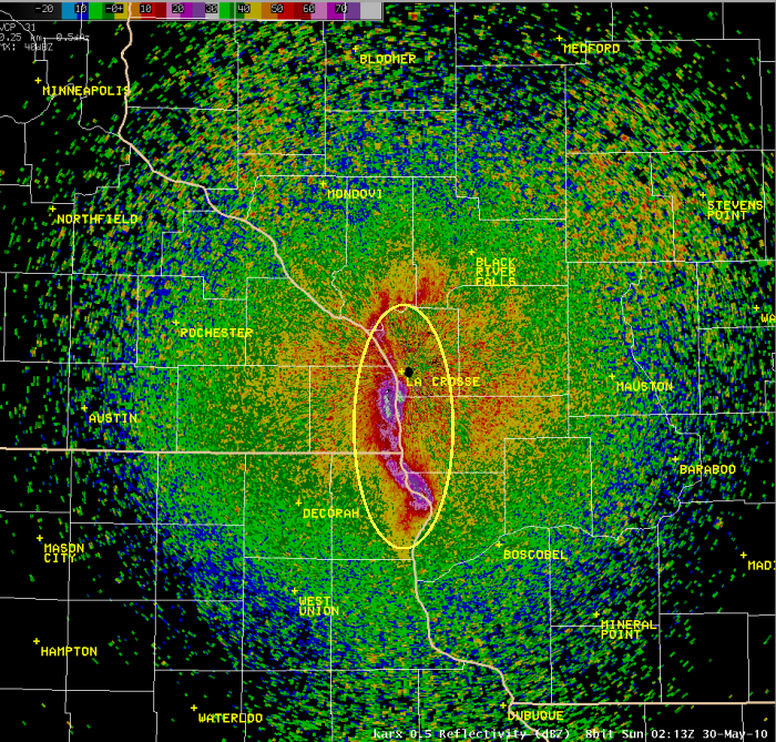 Description on source page: A mayfly hatch along the Mississippi River was caught on Doppler weather radar out of NWS (National Weather Service) La Crosse this evening. The radar view below shows an image at 9:13 p.m. CDT on Saturday, May 29, 2010. The bugs are showing up as bright pink, purple, and white colors along the Mississippi River mainly south of La Crosse, WI. After the bugs hatch off the water and river areas, they are caught in the south-southeast winds while airborne for about 10-20 minutes.